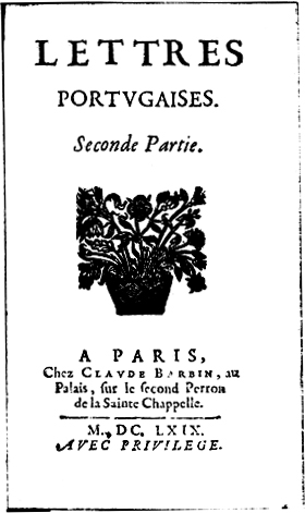 First page of the first edition of the Portuguese Letters by Guilleragues (part 2)